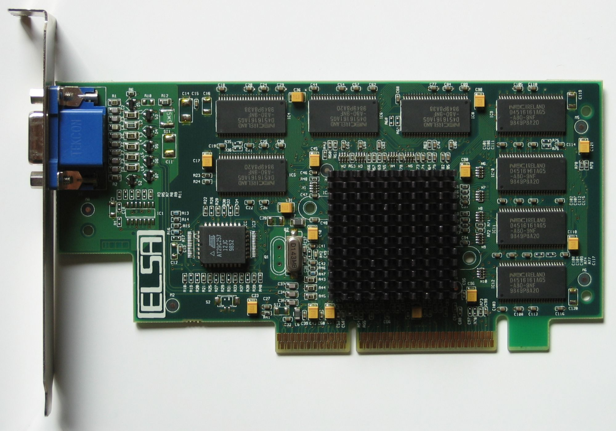 Video card ELSA Erazor II with Nvidia Riva TNT, 16 MB RAM.